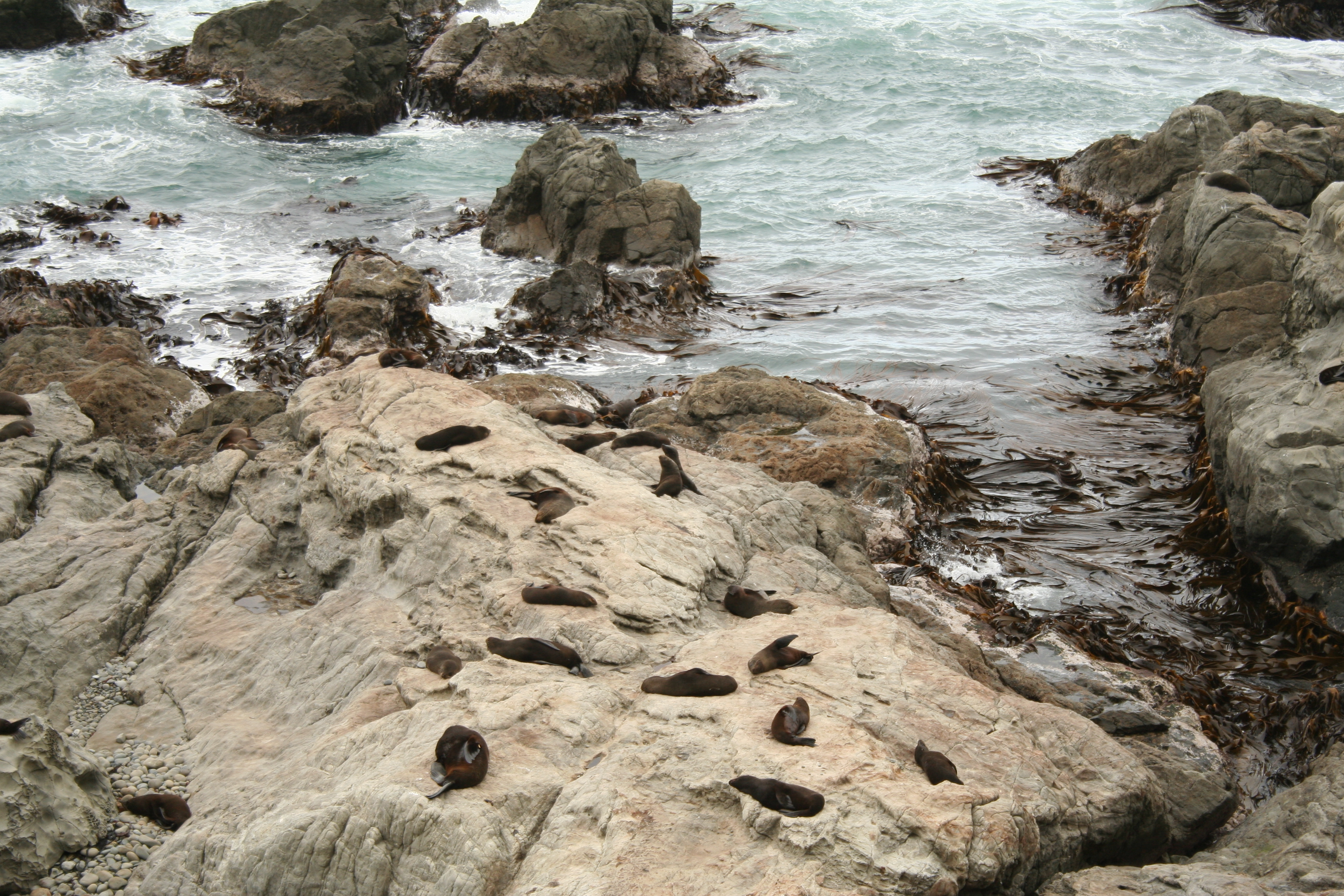 seagulls in Kaikoura (New Zealand)